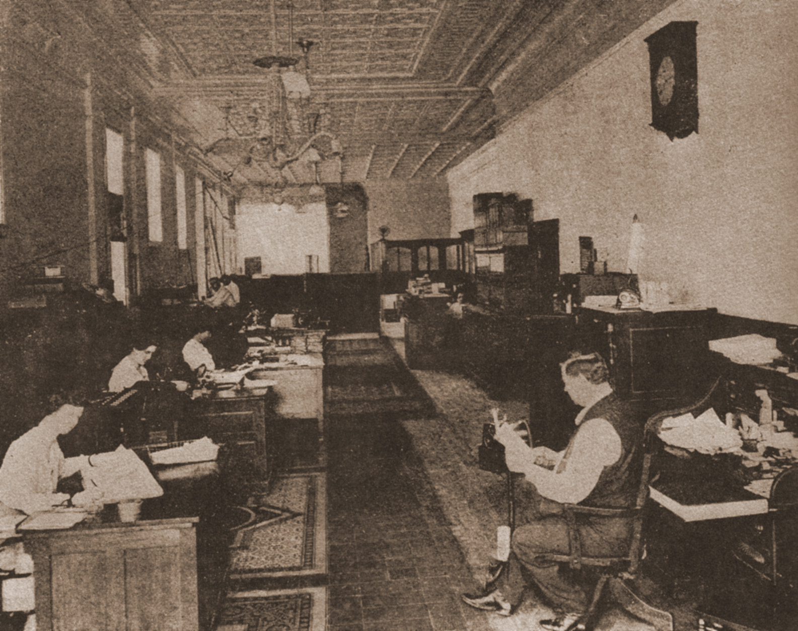 Big Bill Haywood and office employees in the General Office of the Industrial Workers of the World, 1001 W Madison St., Chicago, 1917. Published in International Socialist Review, vol. 17, no. 4 (October 1917), pg. 206. Photographer unknown. Digitized and digital editing by Tim Davenport ("Carrite") for Wikipedia, no copyright claimed for the work. File released to the public domain without restriction.